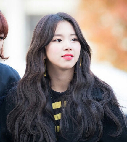 Son Chae-young at the MCountdown Mini Fanmeeting on November 09, 2017.